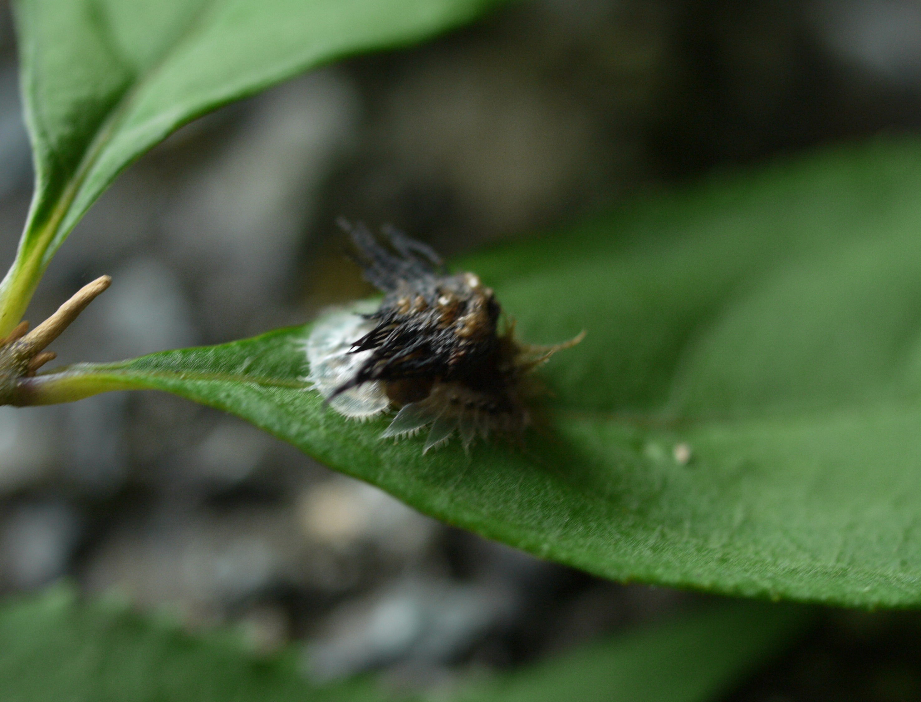 Thlaspida cribrosa